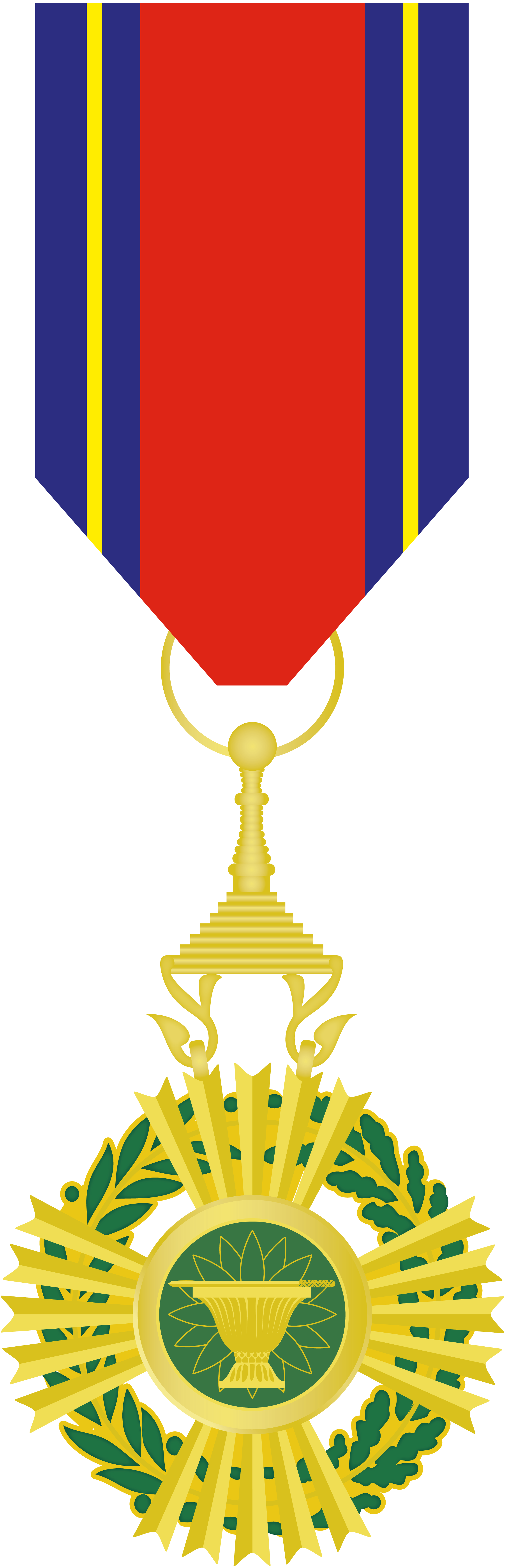 A drawing of the current version of the Royal Order of Sahametrei, Knight Class Medal, issued by the Kingdom of Cambodia.